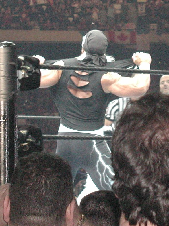 Hollywood Hulk Hogan at WrestleMania X8. Toronto, ON, Skydome, March 17 2002.